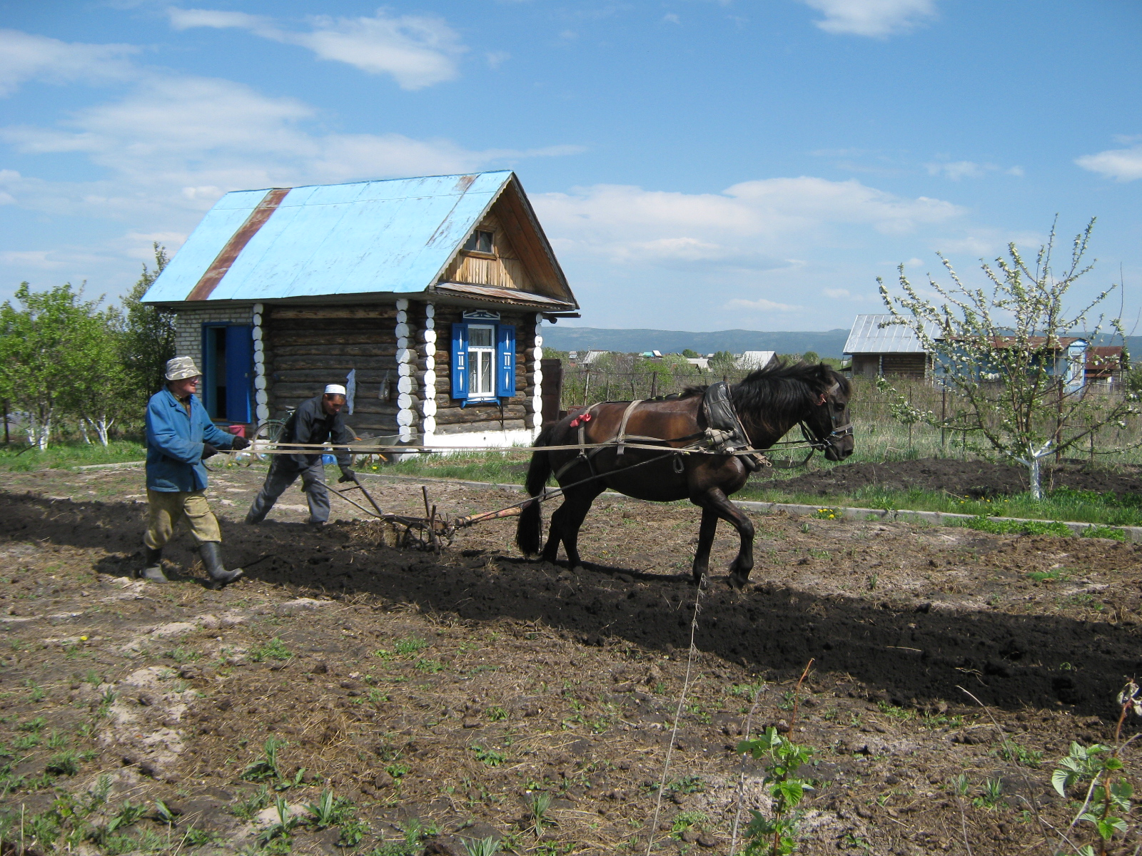 Bashkirs in Beloretsk tilled land